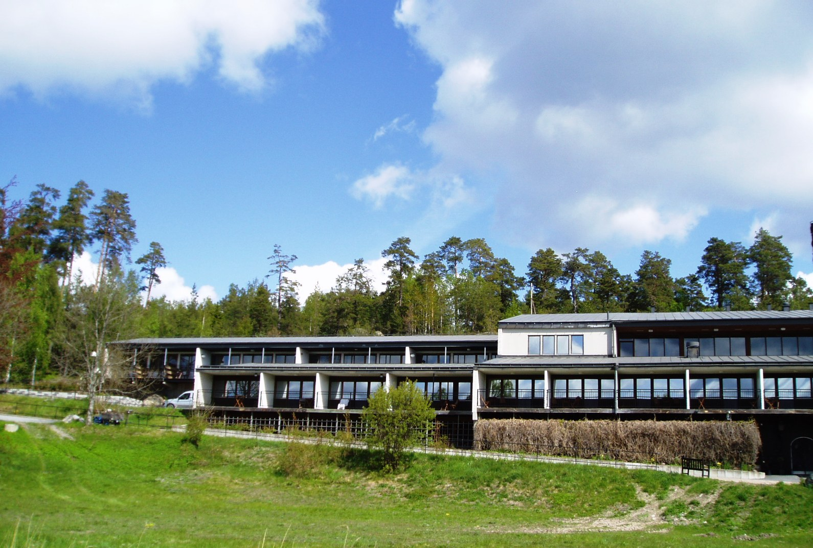 Buildings at Almåsa mansion, Haninge municipality, Sweden